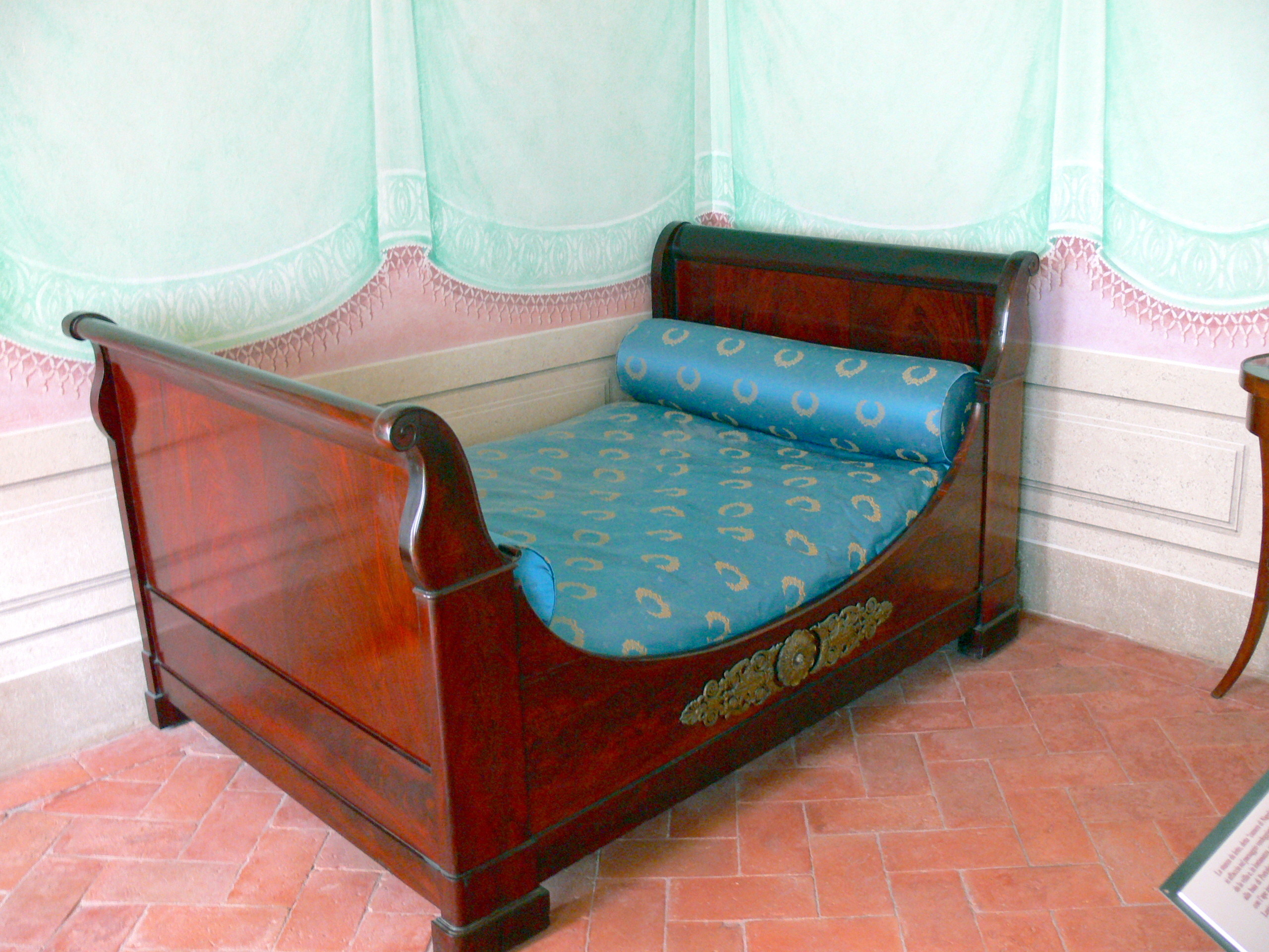 San Martino on Elba. Napoleon´s bed.